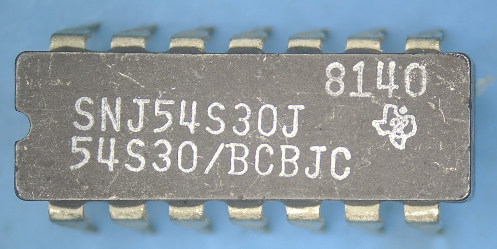 Package top of a Texas Instruments 54S30 chip, datecode 8140.